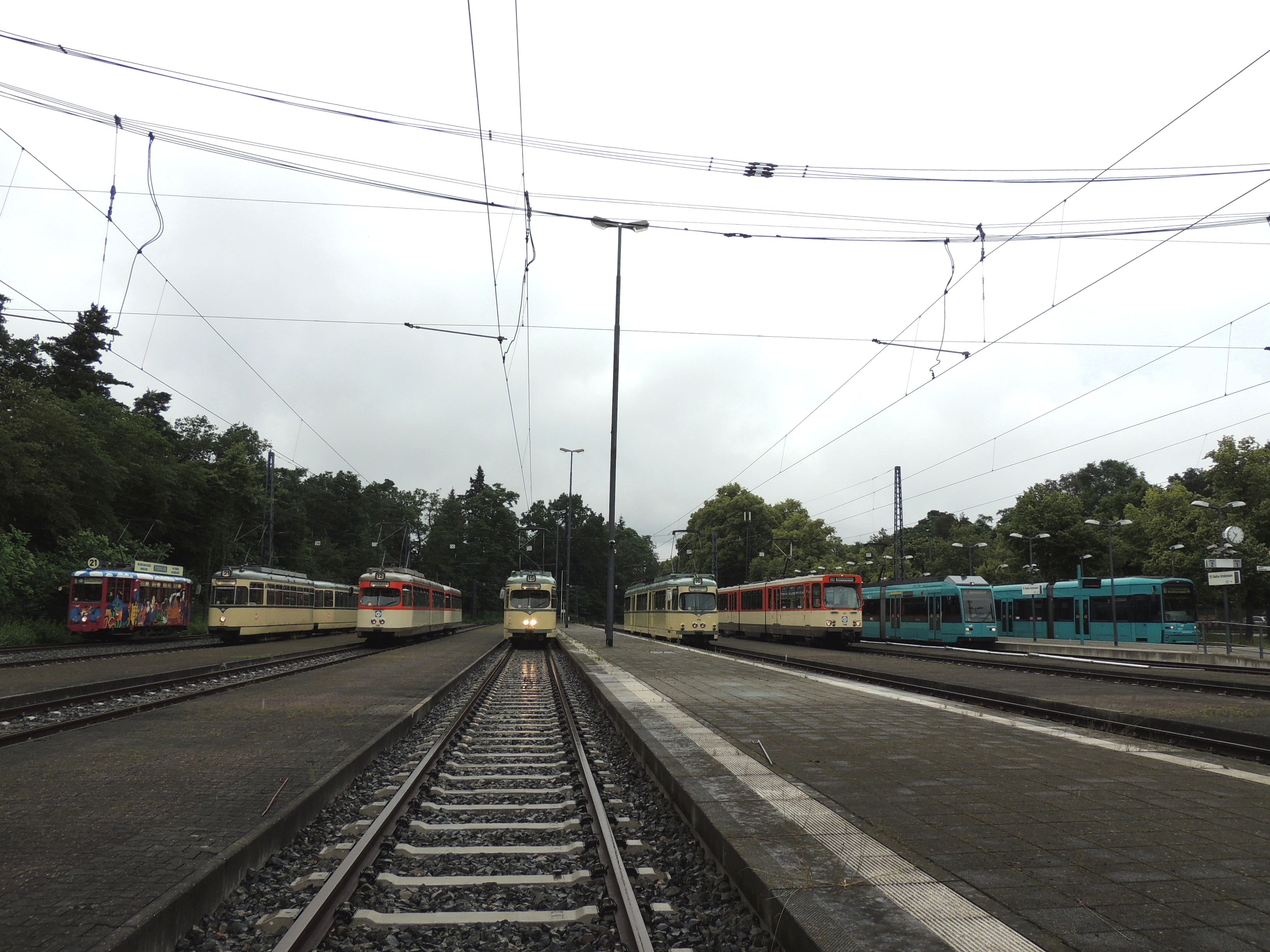 tram type K 105, tram type L 124 with l-trailer 1219, tram type M 102 with m-trailer 1804, tram type N 112, tram type O 110, tram type P 748, tram type R 038 and tram type S 236 of the VGF in Frankfurt am Main at the tram station Stadion of Waldstadion (Commerzbank-Arena) in Frankfurt-Sachsenhausen at a special event